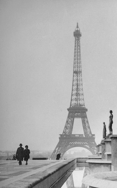 Picture of the Eiffel Tower taken in 1945. I flew to Paris and walked to the Eiffel Tower. The Eiffel Tower is significant because it only took a year to build, its claimed to be the tallest structure (until 1931), and and it was built to celebrate the science and engineering of France. Photo taken by Col. Philip B. Foote - photo owned by Googie Man.